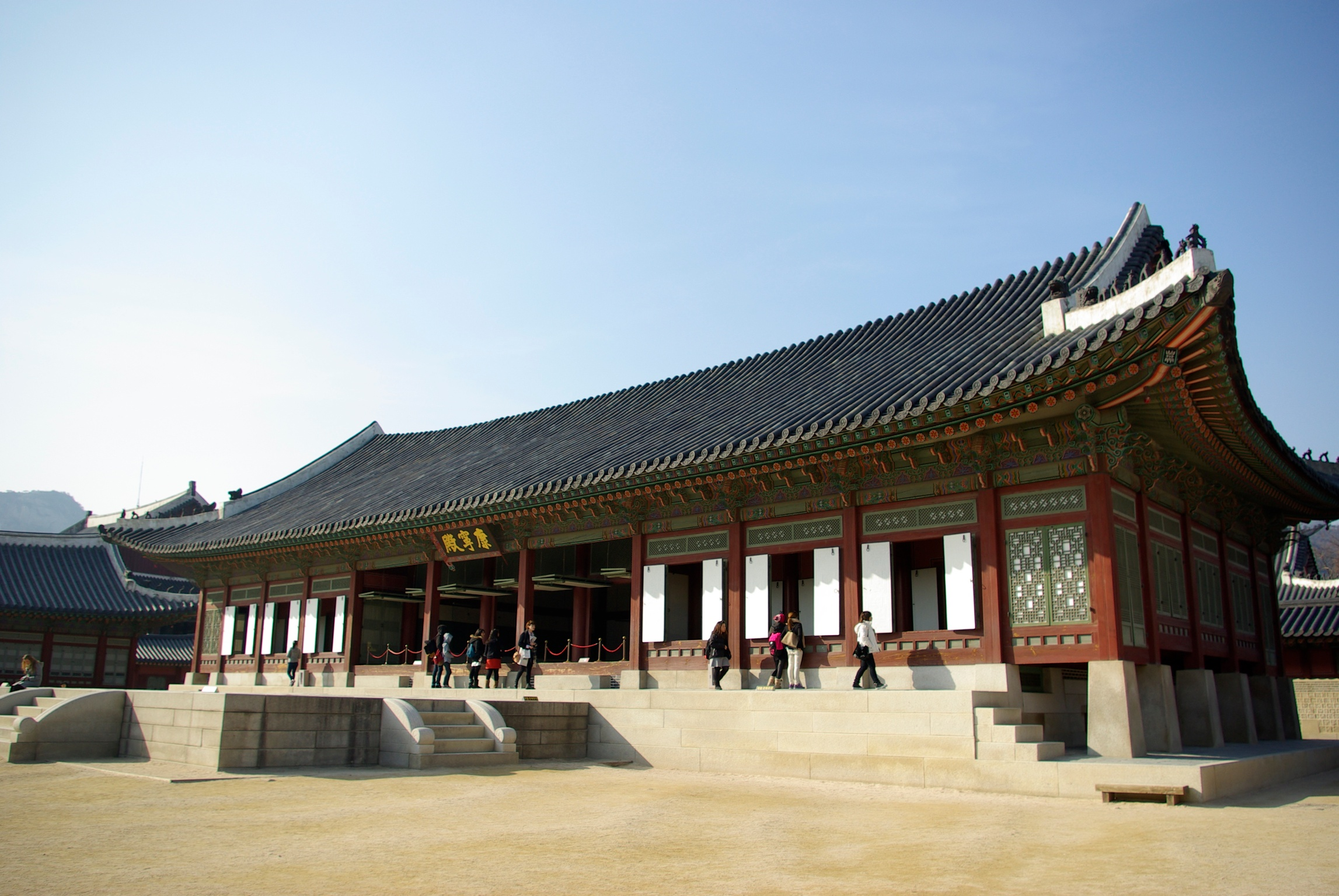 Gangnyeongjeon, the king's quarters located in Gyeongbokgung Palace.